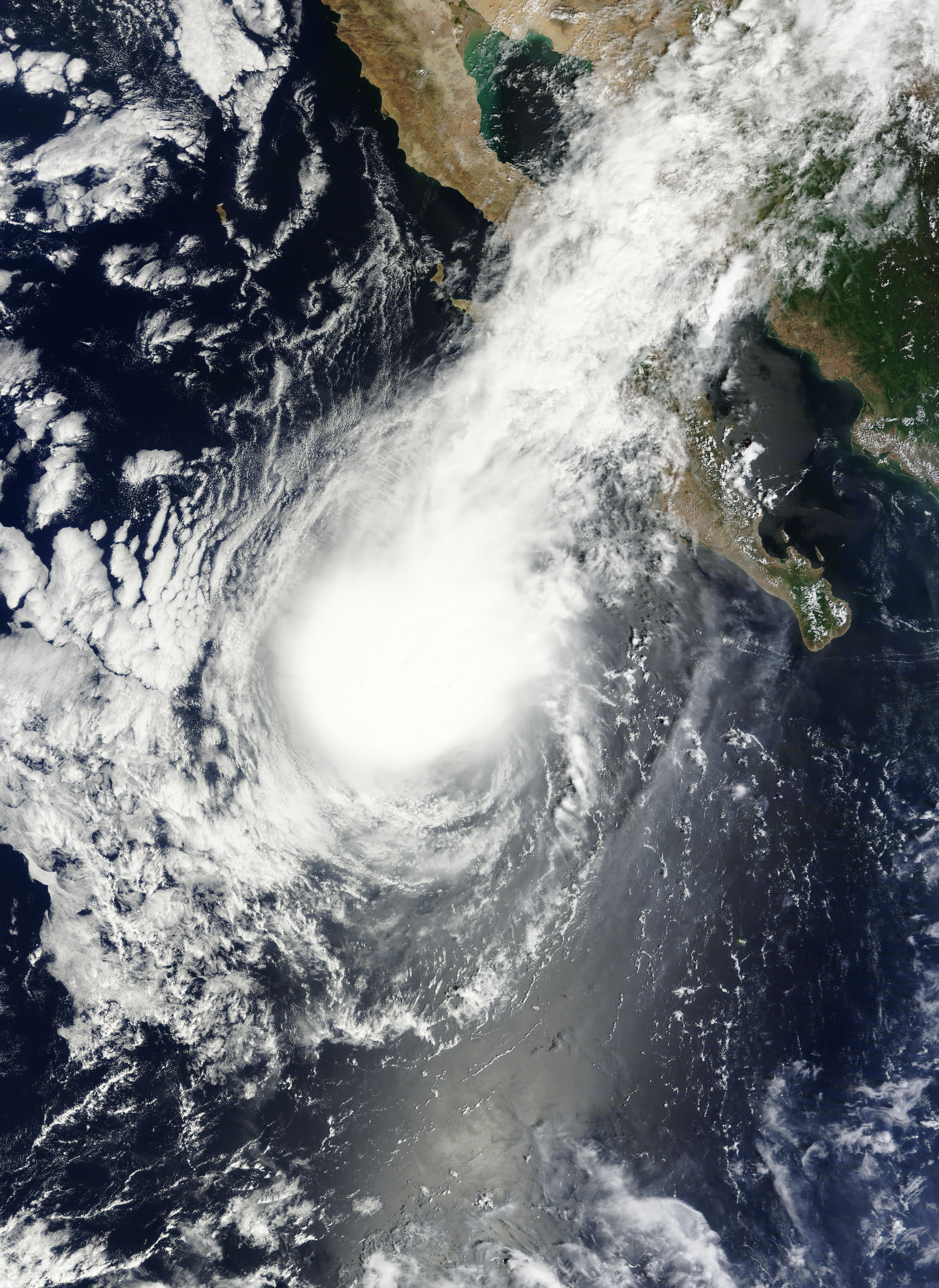 Tropical Storm Kevin off Mexico on September 4, 2015